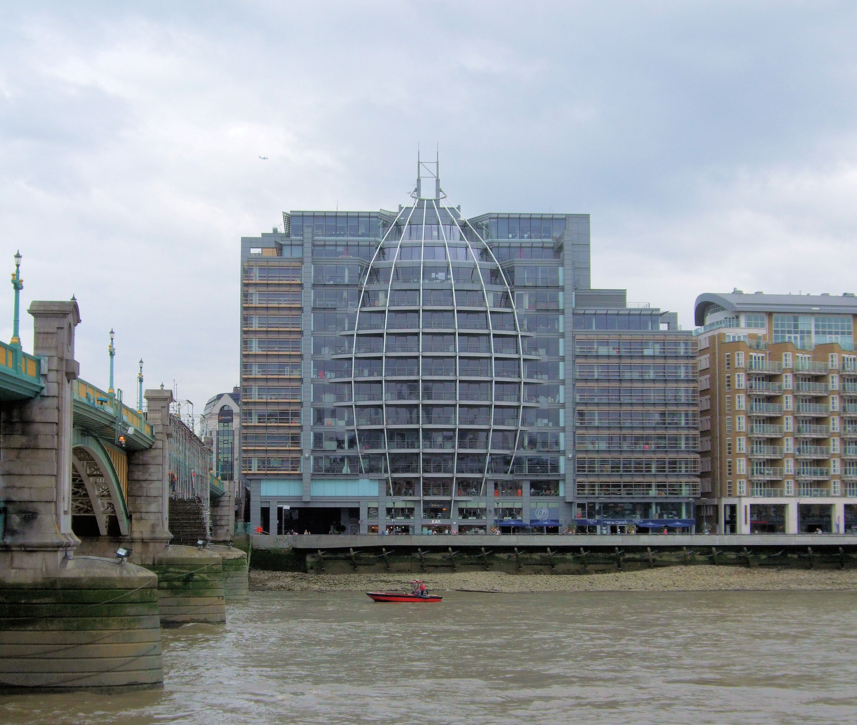 Riverside House, Bankside, London. Home of OFCOM offices.